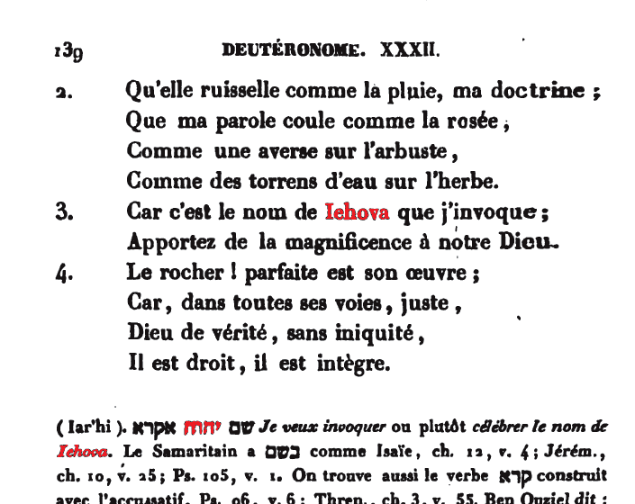 Samuel Cahen, La Bible: Le Deutéronome, Traduction nouvelle, avec l'Hébreu (Chez l'auteur, 1834, p. 139). Cahen translated the Hebrew Tetragrammaton as Iehova (Jehovah).